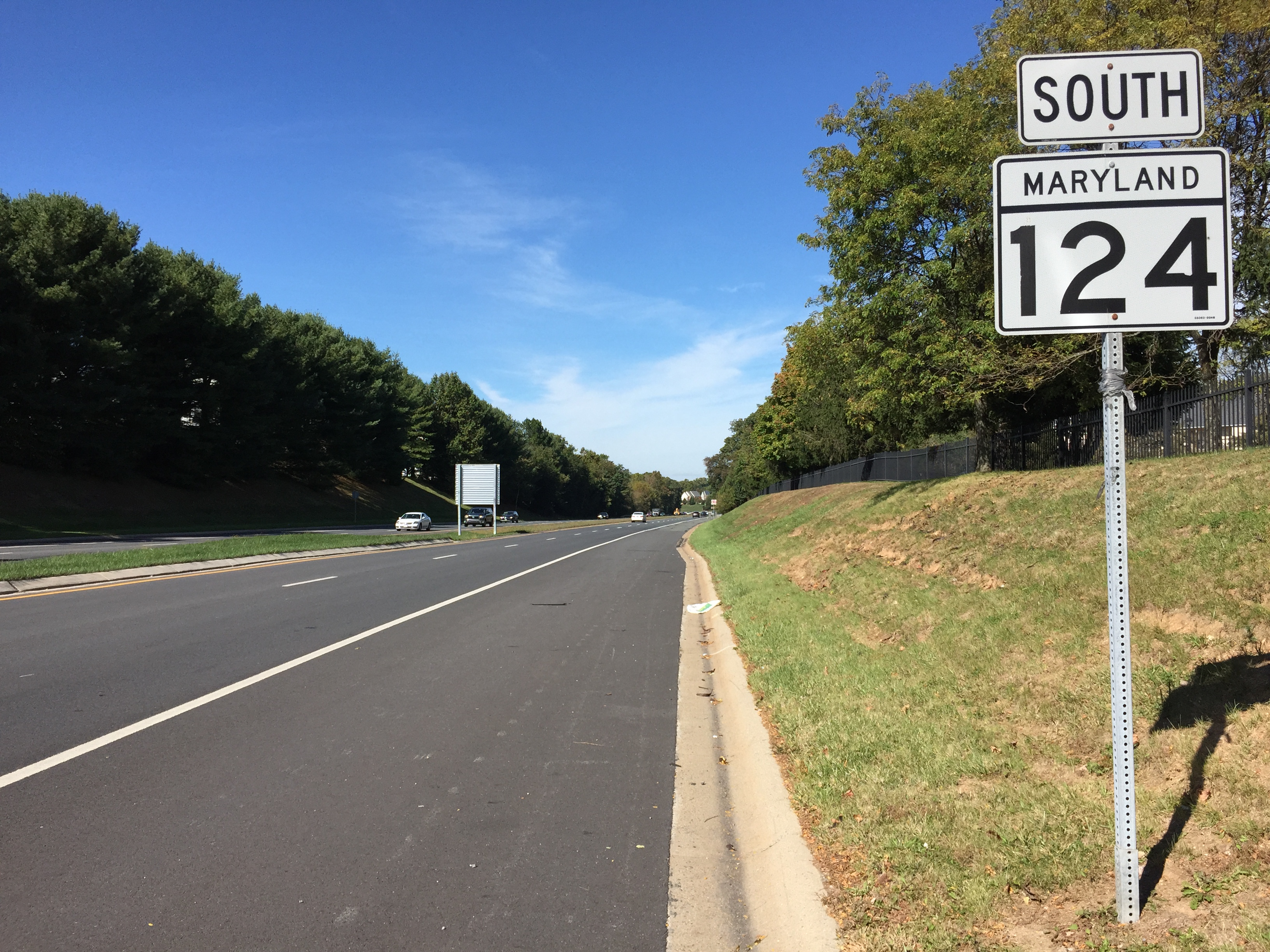 View south along Maryland State Route 124 (Midcounty Highway) at Woodfield Road in Gaithersburg, Montgomery County, Maryland